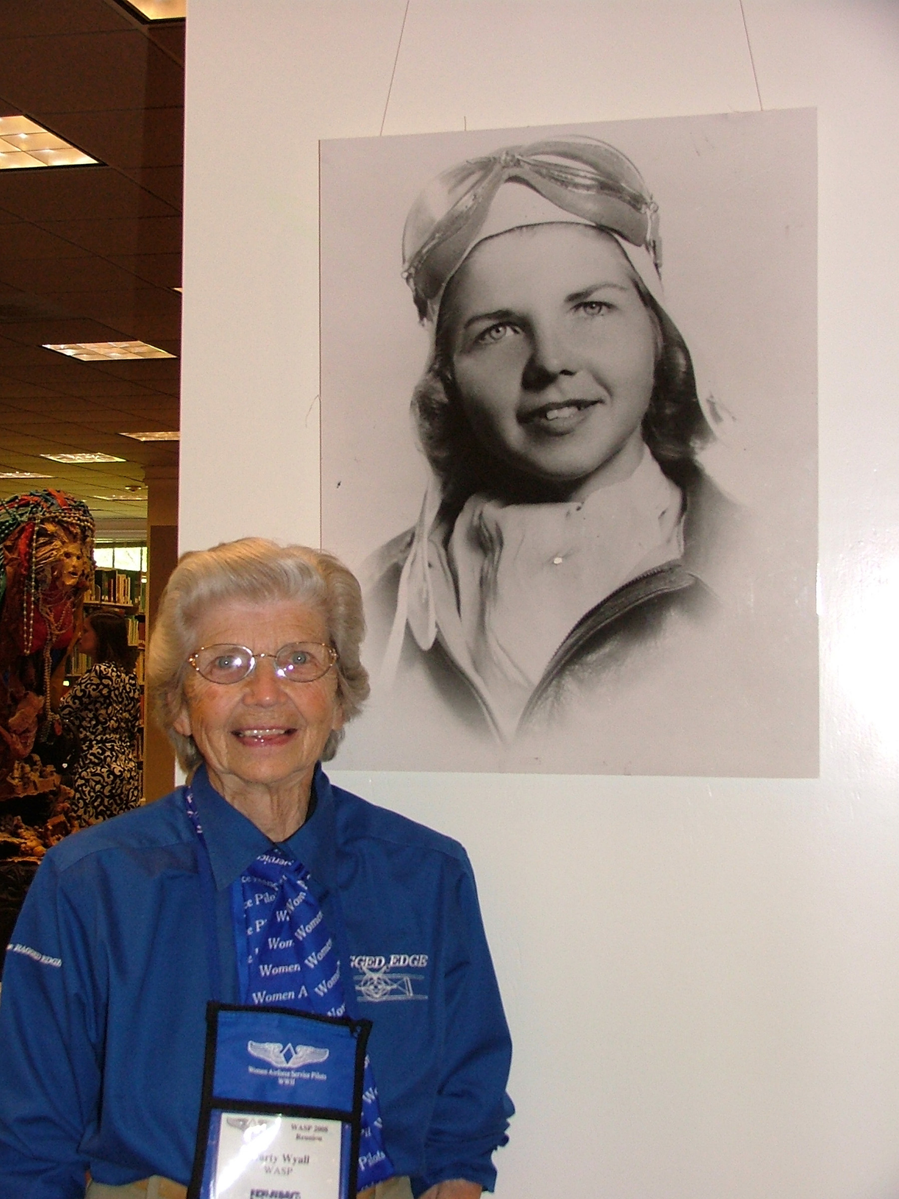 IRVING, Texas – Marty Wyall poses beside a portrait of herself from her WASP days. Ms. Wyall was one of the more than 100 Women Airforce Service Pilots to gather for the final formal group reunion Sept. 25 to 28, 2008.